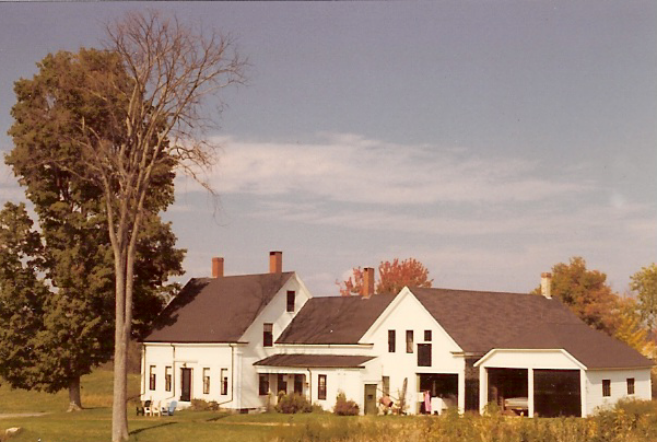 Connecting farmhouse in Windham, Maine. Barn dates from late 18th century. House added in three stages during 19th century. Unconnected garage is a 20th century addition.